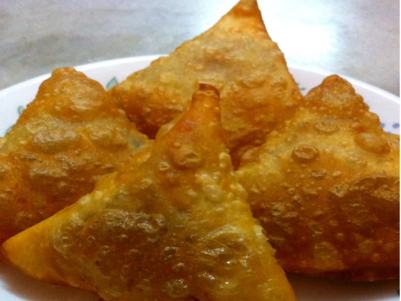 Samosa stuffed with real vegetables.